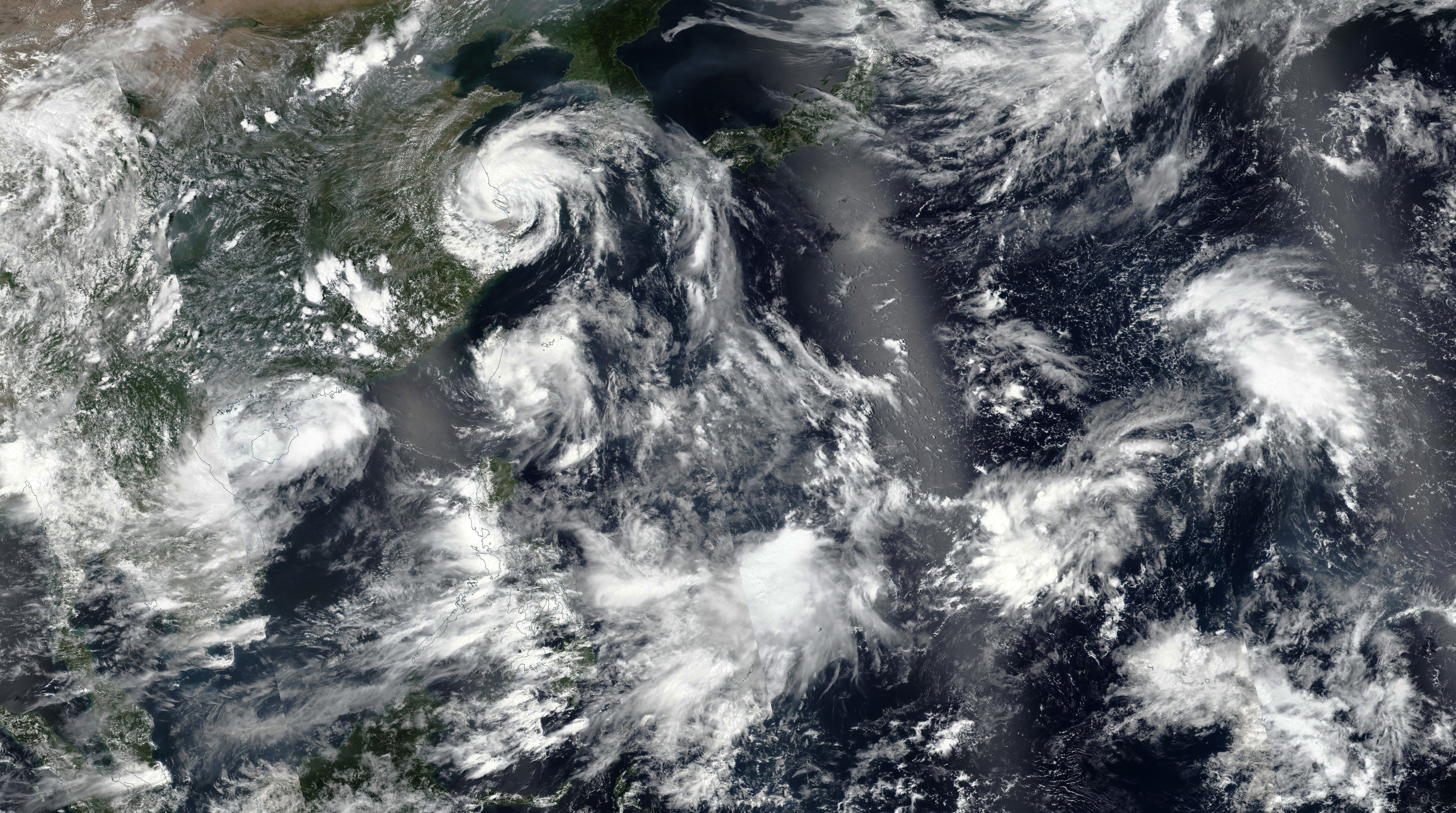 Severe Tropical Storm Ampil, Tropical Depressions 13W, 14W, 15W and Son-tinh on July 22, 2018